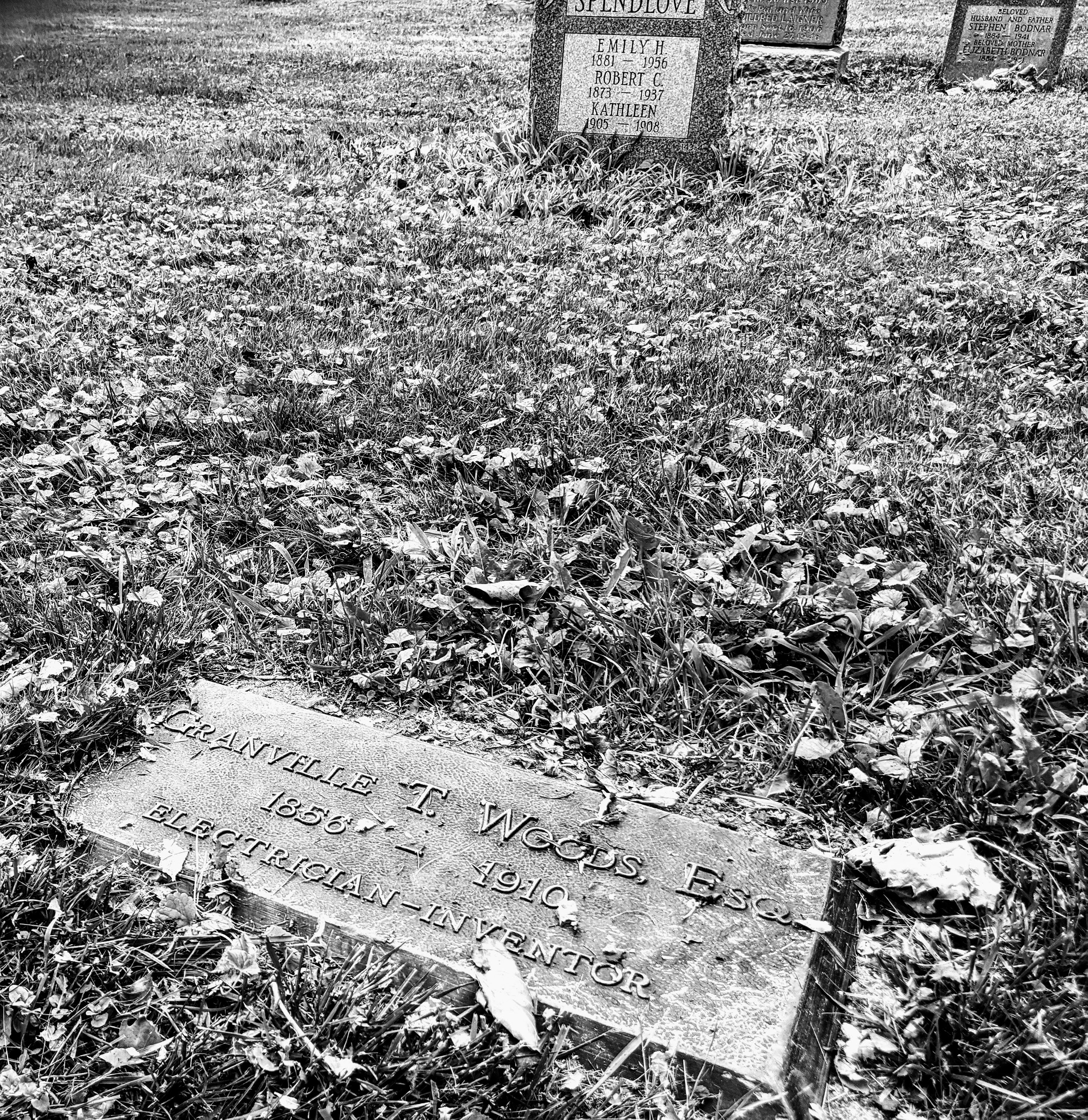 Located in Plot 5, row 3 grave 144, it was donated by some of the companies that depended on his inventions